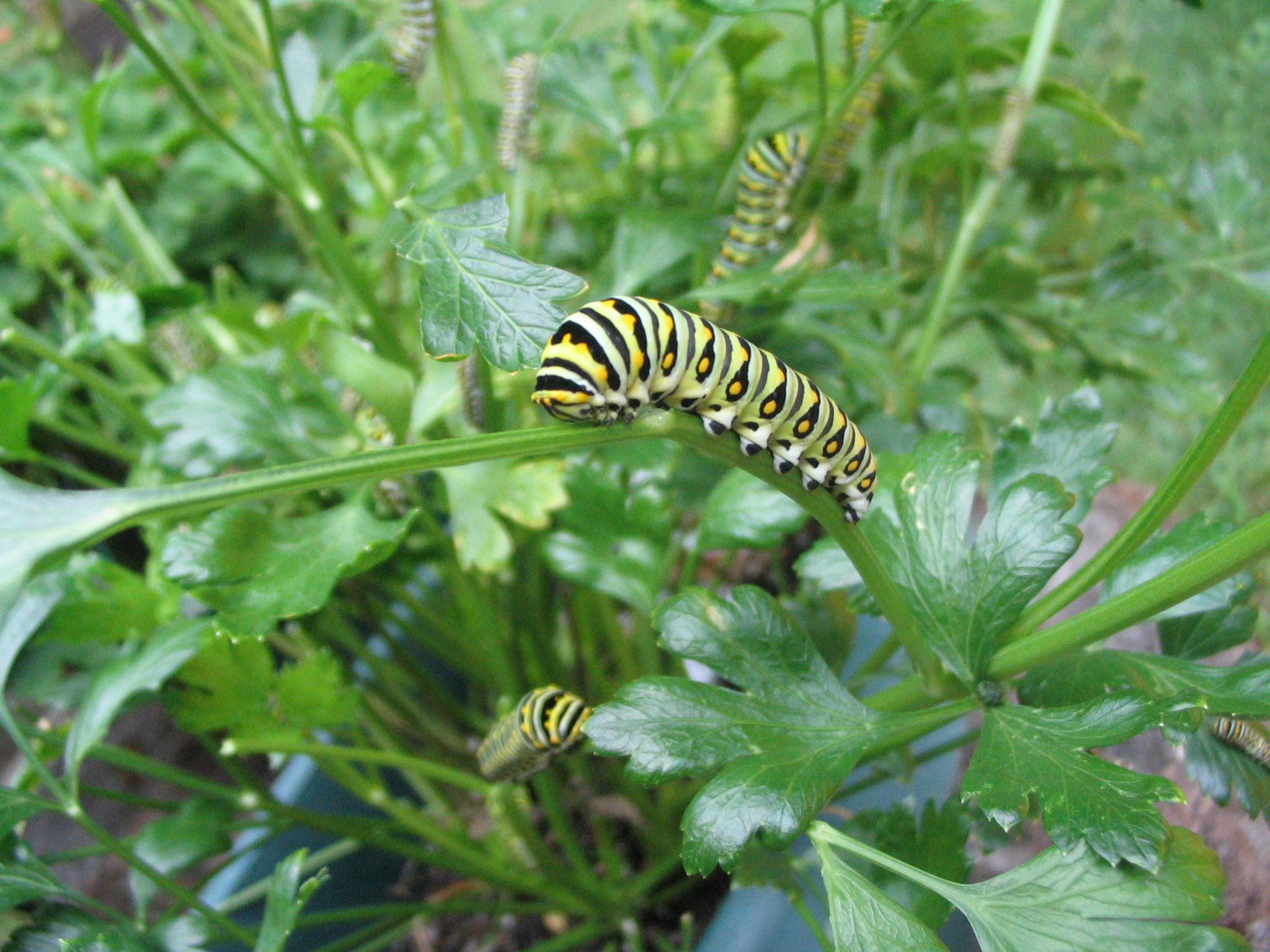 Black Swallowtail (Papilio polyxenes) larva, nearly ready to pupate.